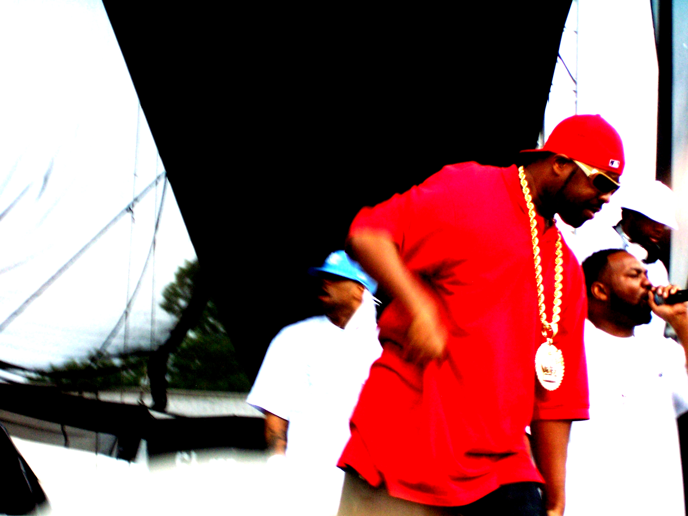 (left to right) Method Man, Cappadonna, Raekwon, and Mathematics at the Virgin Festival in 2007.